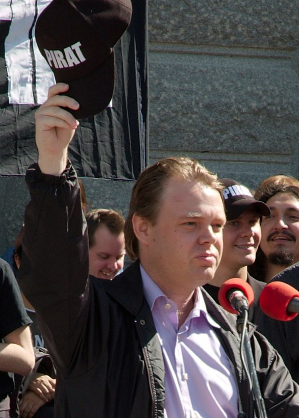 Rickard Falkvinge finishing his "Nothing new beneath the Sun"-speech at Mynttorget in Stockholm during the June 3, 2006 pro-piracy protest.